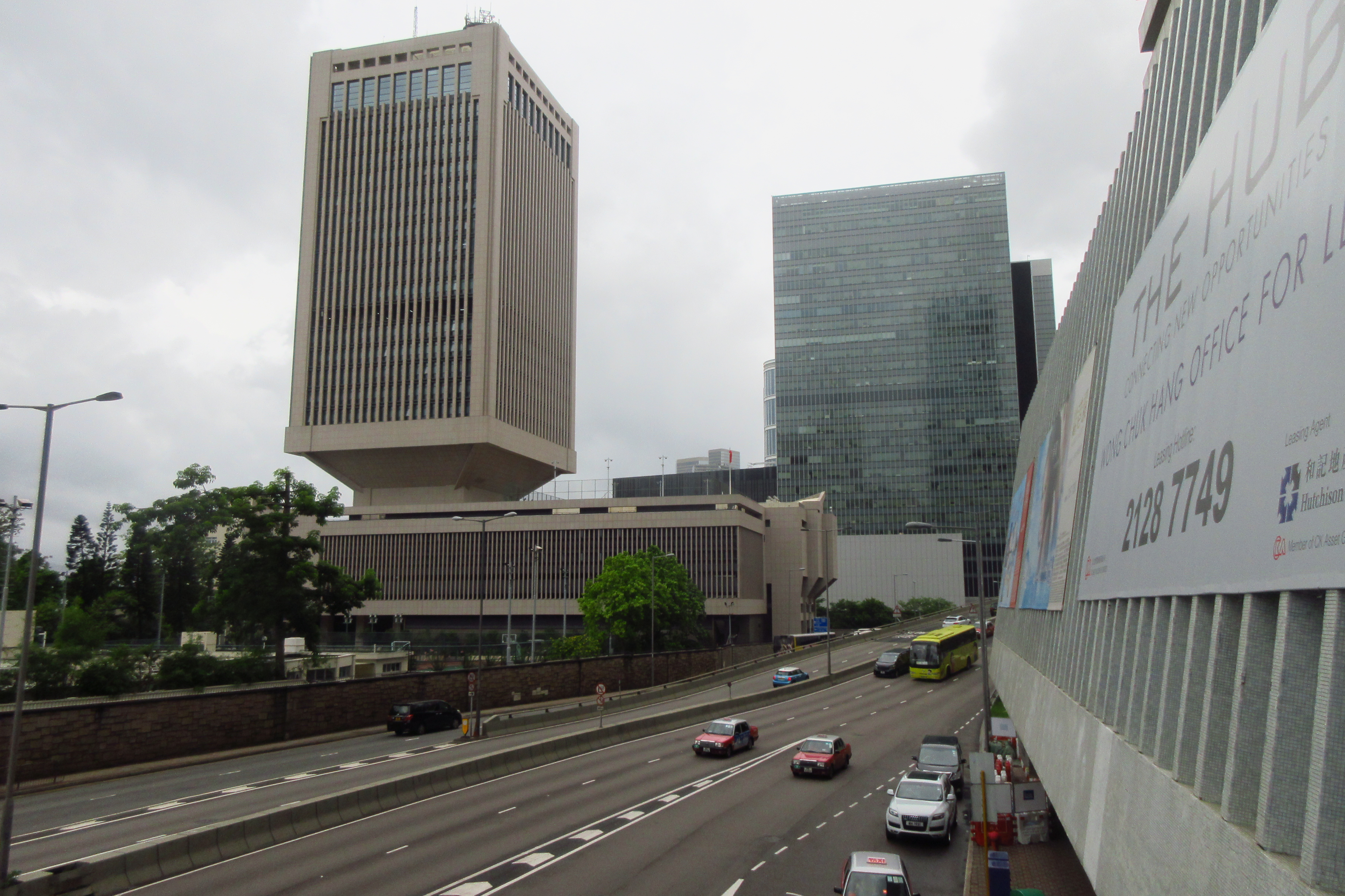 HK Central 金鐘 Admiralty July 2018